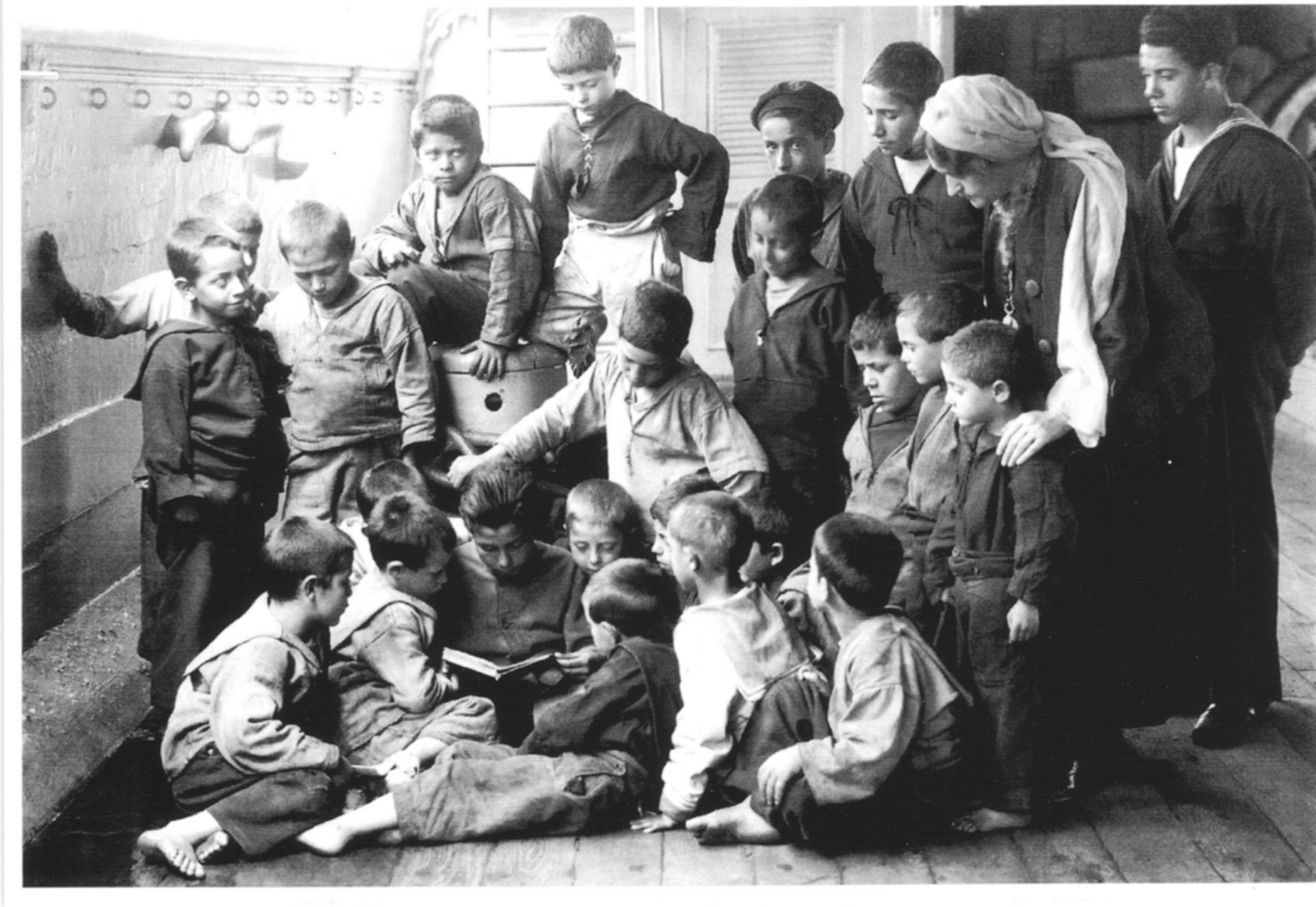 Boys of kindergarten ship Caracciolo - Reading and listening with Giulia Civita Franceschi